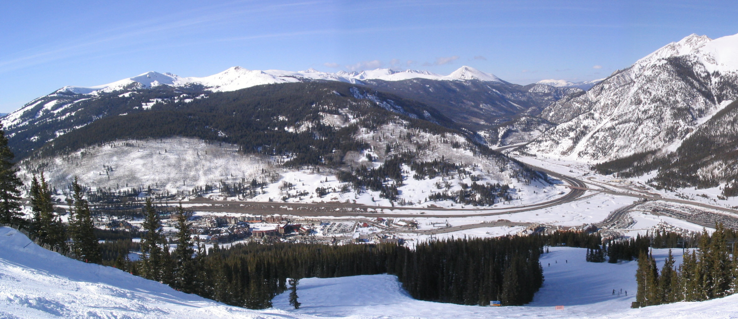 View looking down at the Copper Mountain base area from a ski trail on the east side of the resort. Image taken by DebateLord on March 23, 2006.